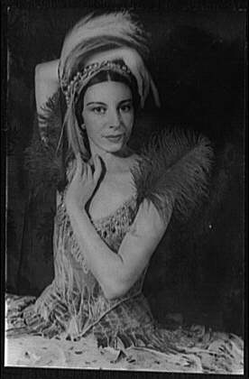 Title: Portrait of Alicia Markova, Bluebird variations, "Sleeping Beauty" Abstract/medium: 1 photographic print : gelatin silver.